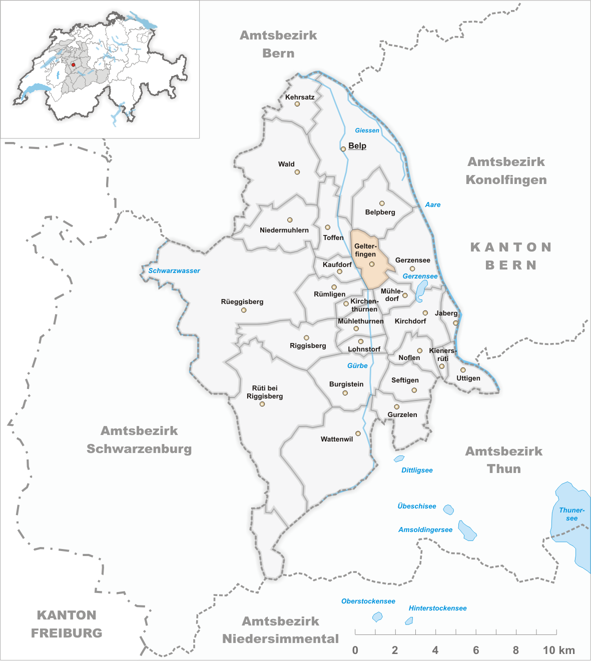 Municipality Gelterfingen